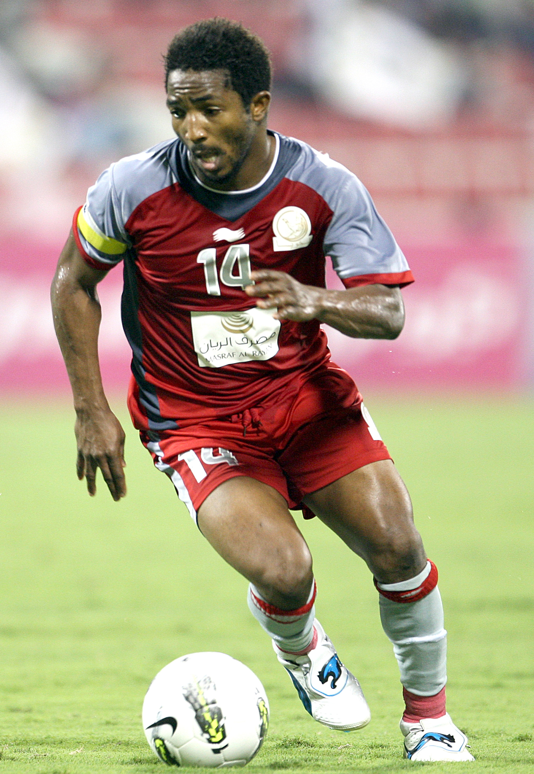 Lekhwiya's Bakari Kone in action in the Qatar Stars League.